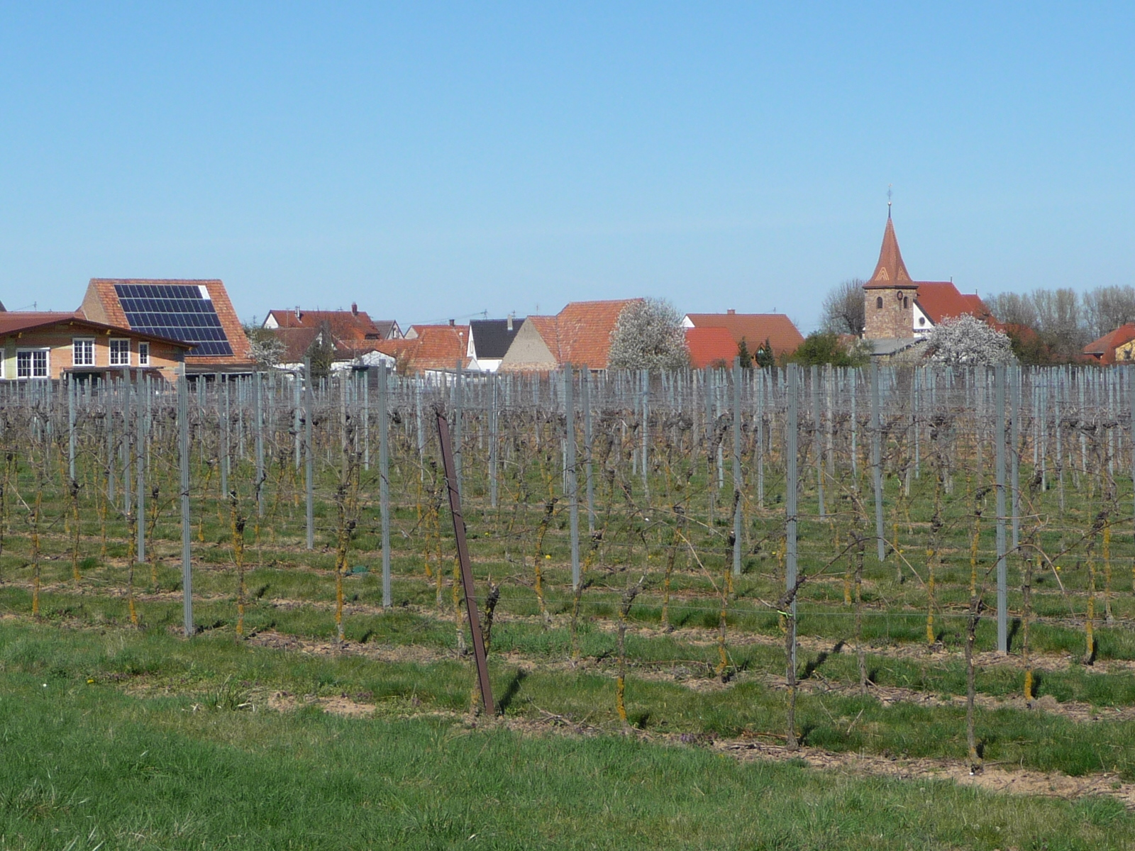 Freimersheim in Rhineland-Palatinate, Germany